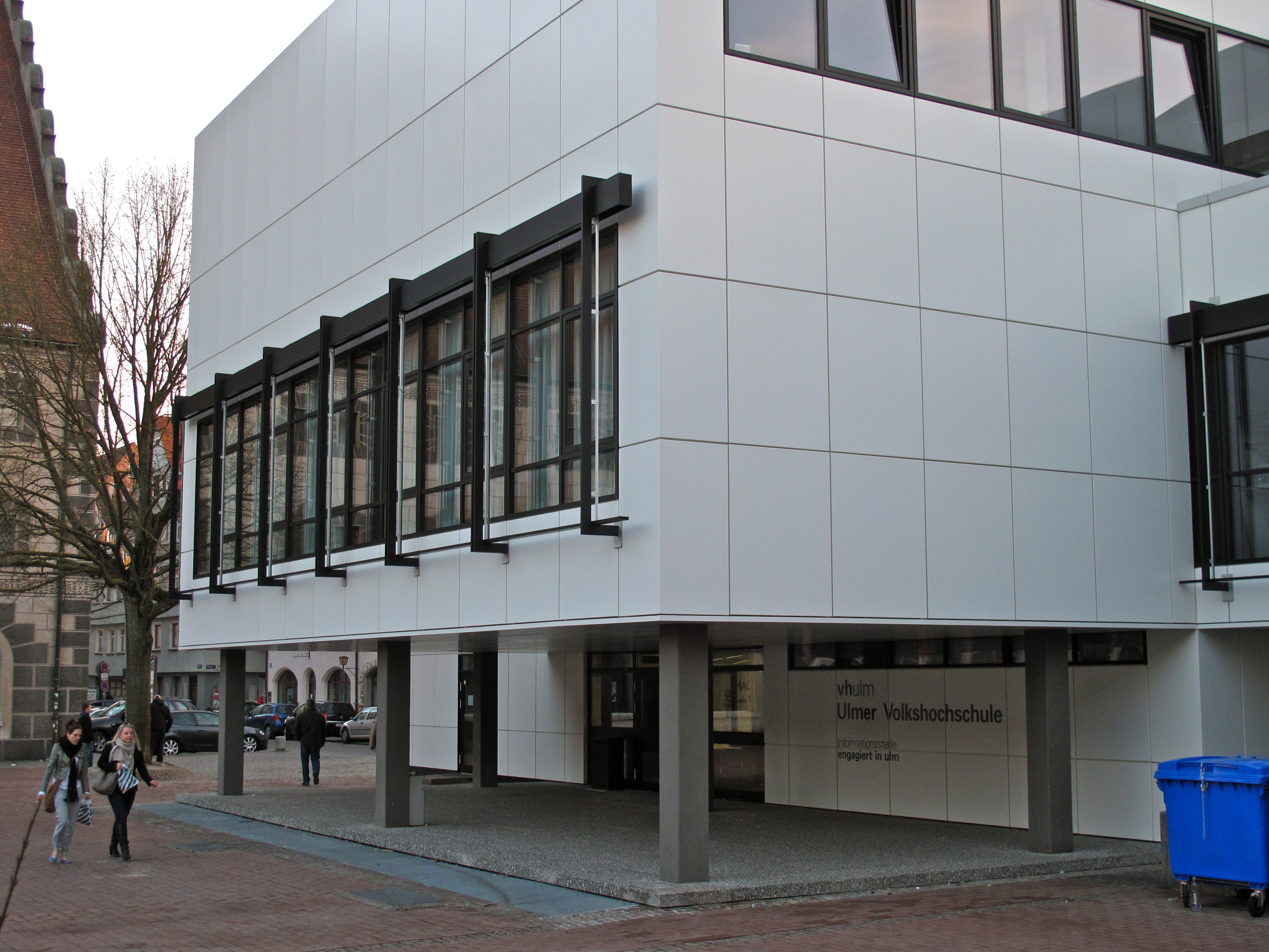 The EinsteinHaus at the Kornhausplatz – headquarters of the Ulmer Volkshochschule (Adult Education Centre) in Ulm.